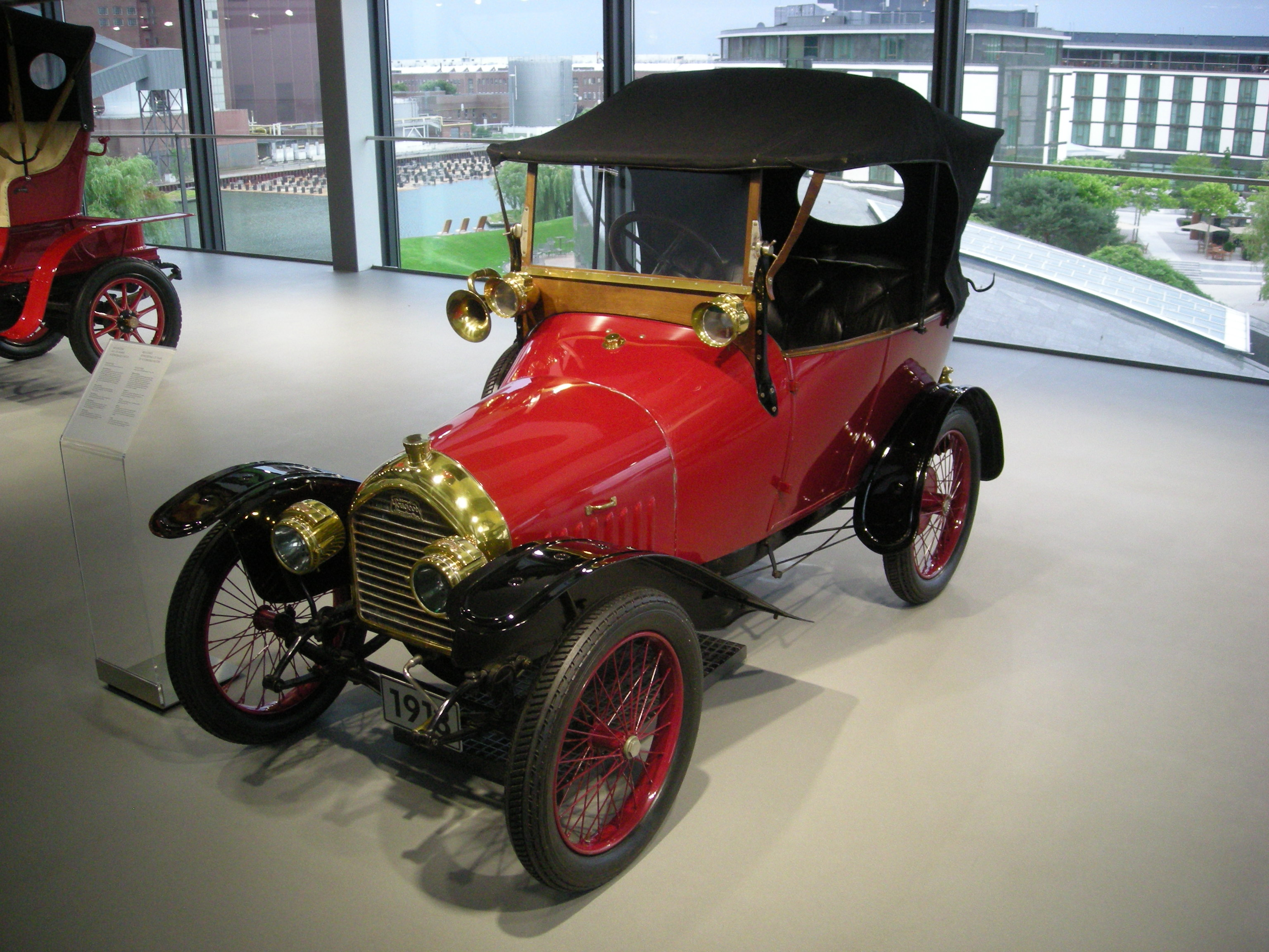 A 1913 Peugeot Bébé inside the ZeitHaus at Autostadt in Wolfsburg, Niedersachsen (Germany).